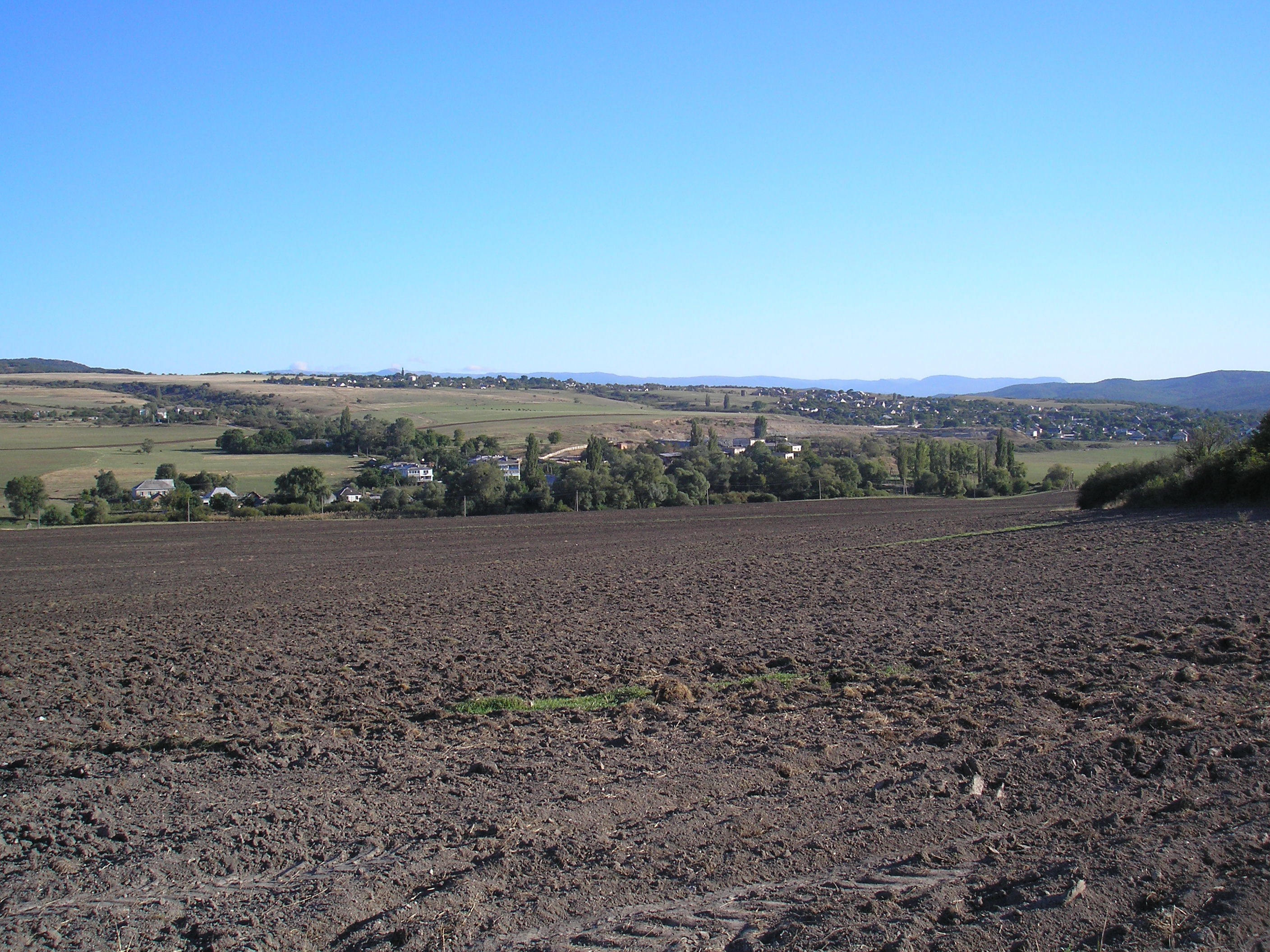 Village Topolnoe, Simferopol district, Crimea